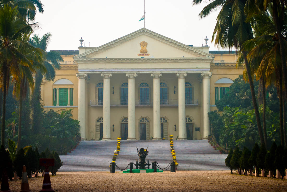 Governor's House details